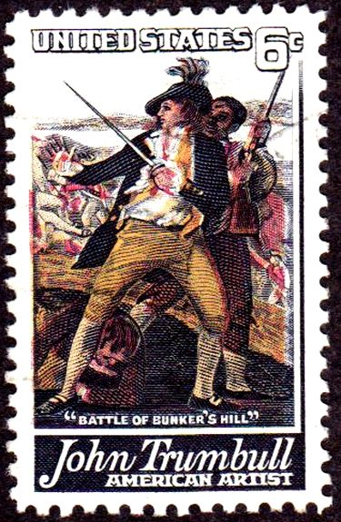 John_Trumbull-6c.jpg